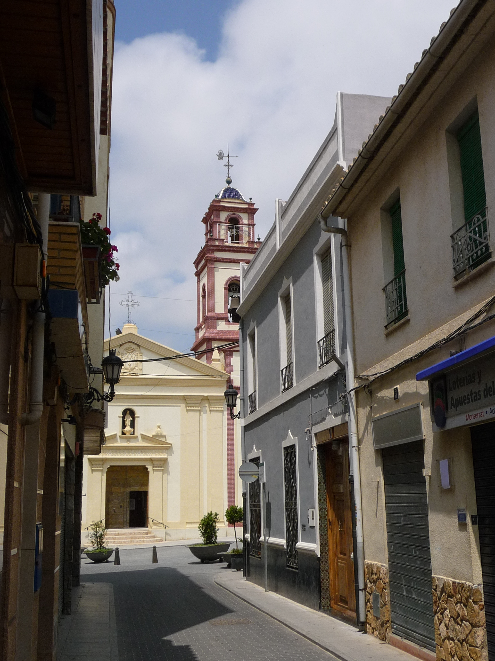 View on the Church of Assumption, Carrer Major (street)